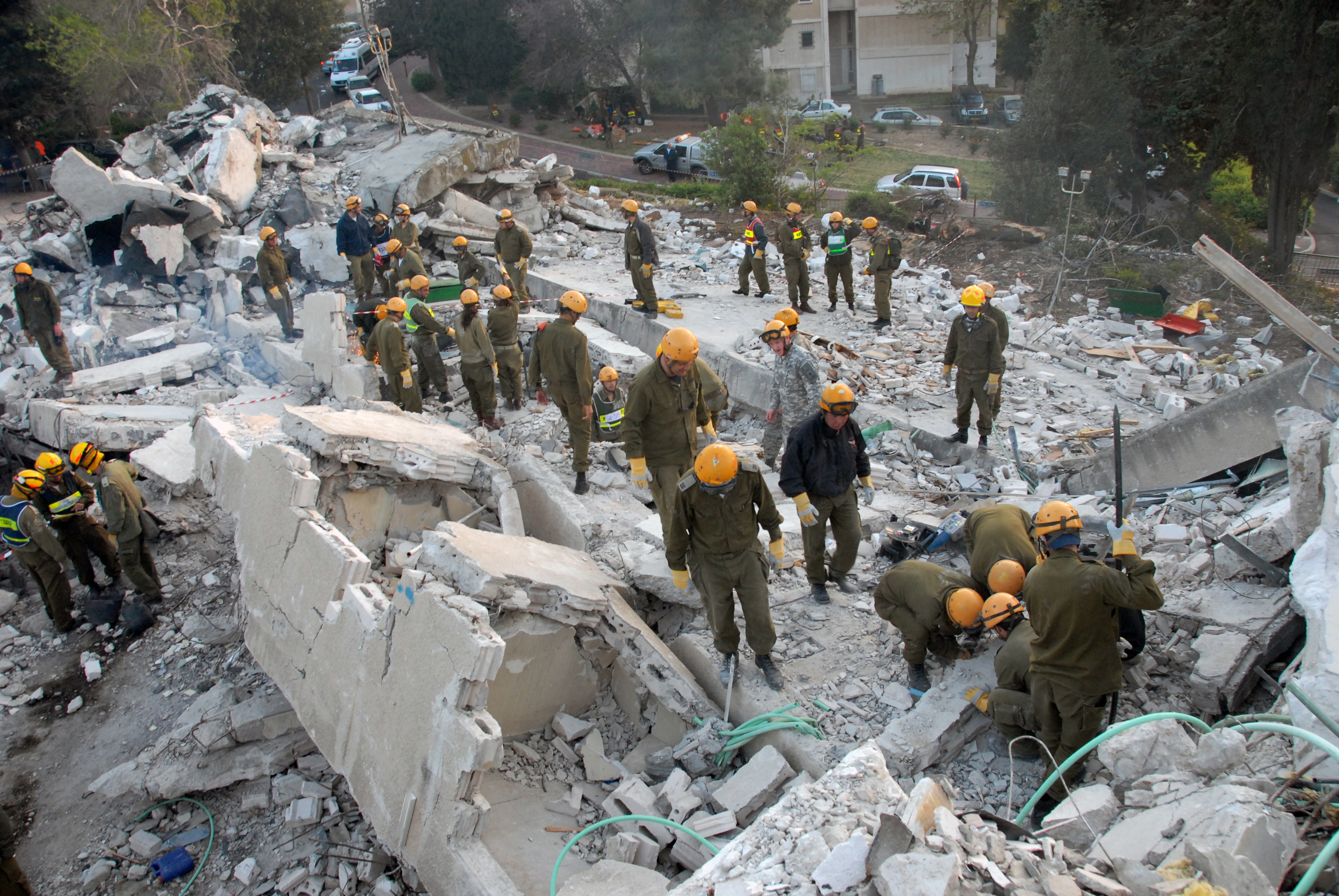 Members of the Israeli Defense Force's Homefront Command and civilian authorities search the rubble of a collapsed three-story building in Nazareth, Israel, on April 8, 2008, during Turning Point 2, a first-ever national level civil defense exercise. National Guard Bureau officials observed the exercise. (U.S. Army photo by Staff Sgt. Jim Greenhill) (Released) Israel by Jim Greenhill